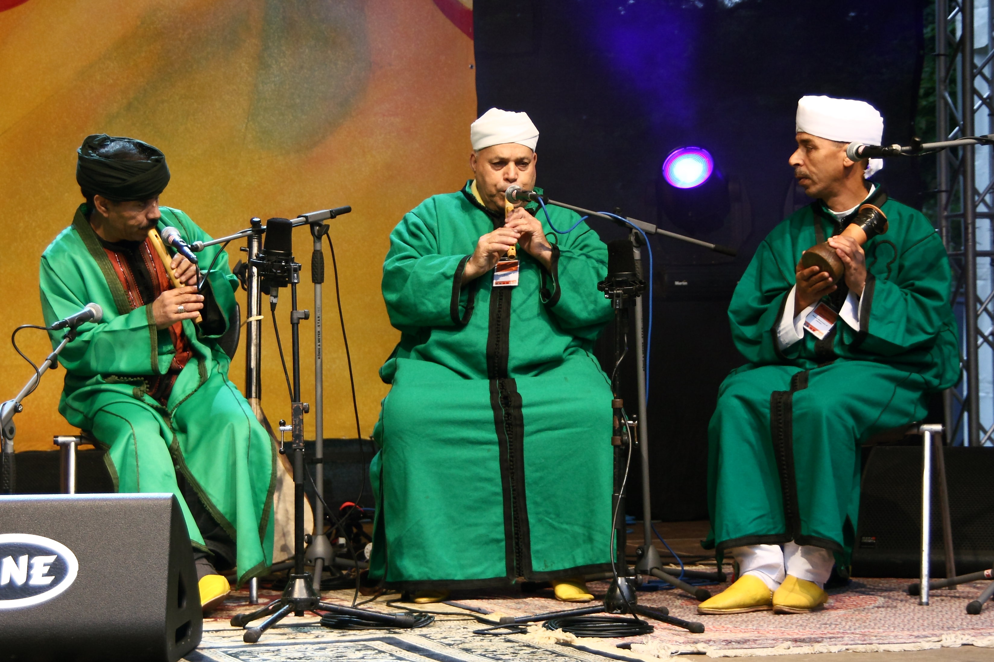 The Master Musicians of Jajouka with Bachir Attar (l.) at TFF Rudolstadt 2011.